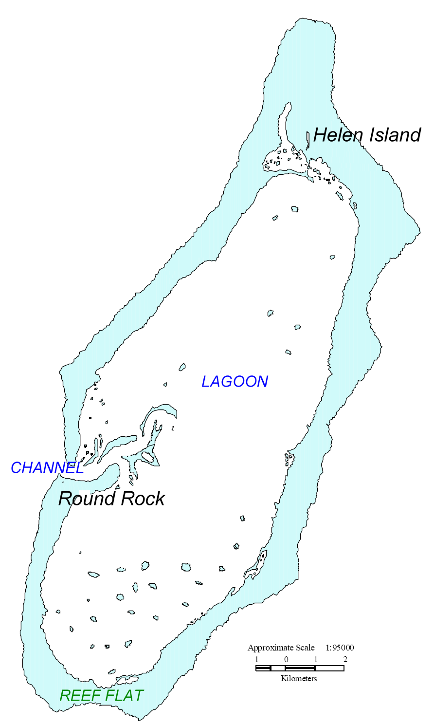 Map of Helen Reef, Palau. Based on map from U.S. Minerals Management Service.